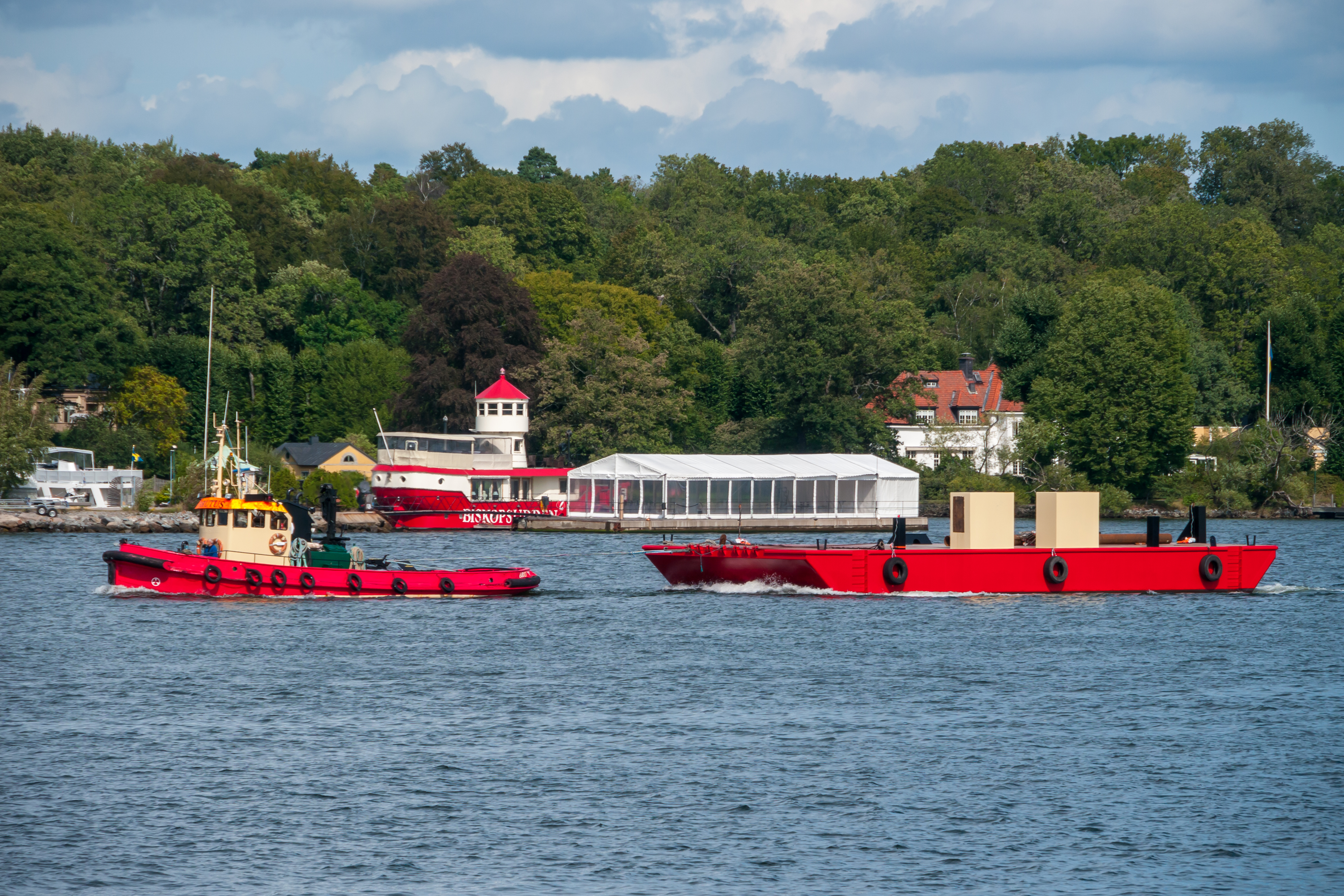 Watercraft in Stockholm, Nacka